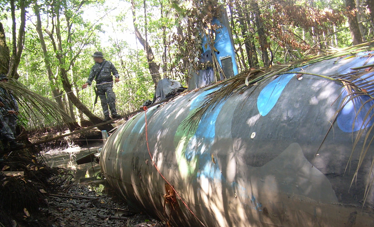 A fully-operational submarine built for the primary purpose of transporting multi-ton quantities of cocaine located near a tributary close to the Ecuador/Colombia border that was seized by the Ecuador Anti-Narcotics Police Forces and Ecuador Military authorities with the assistance of the DEA.